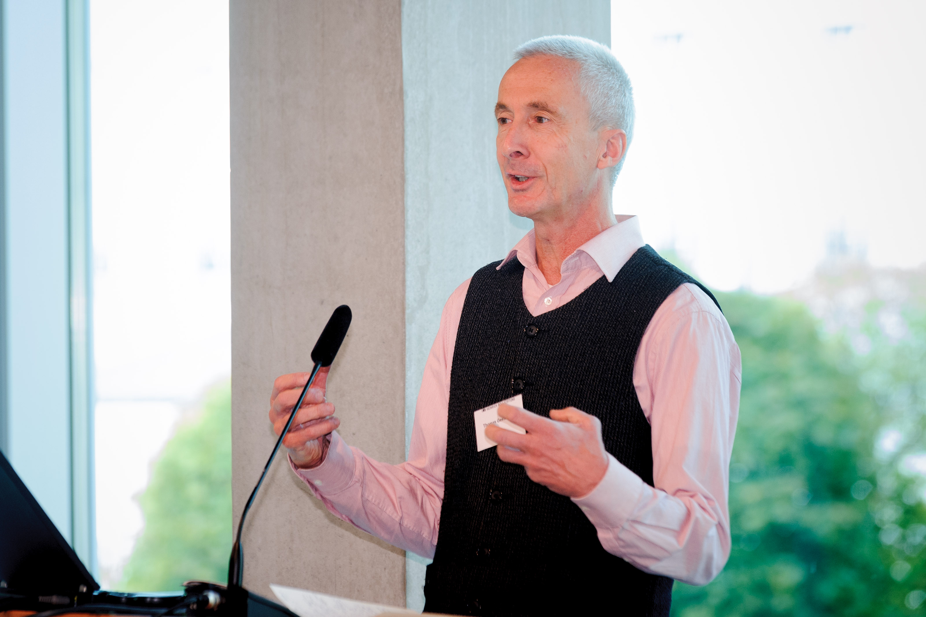 Thomas Gesterkamp (Journalist und Autor), Foto: Stephan Röhl Foto: Stephan Röhl